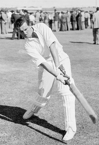 Ashes Test, 1954-1955.Tom Graveney, MCC team member, practices his batting at the nets in Perth, 11 October 1954. SMH Picture by Harry Martin